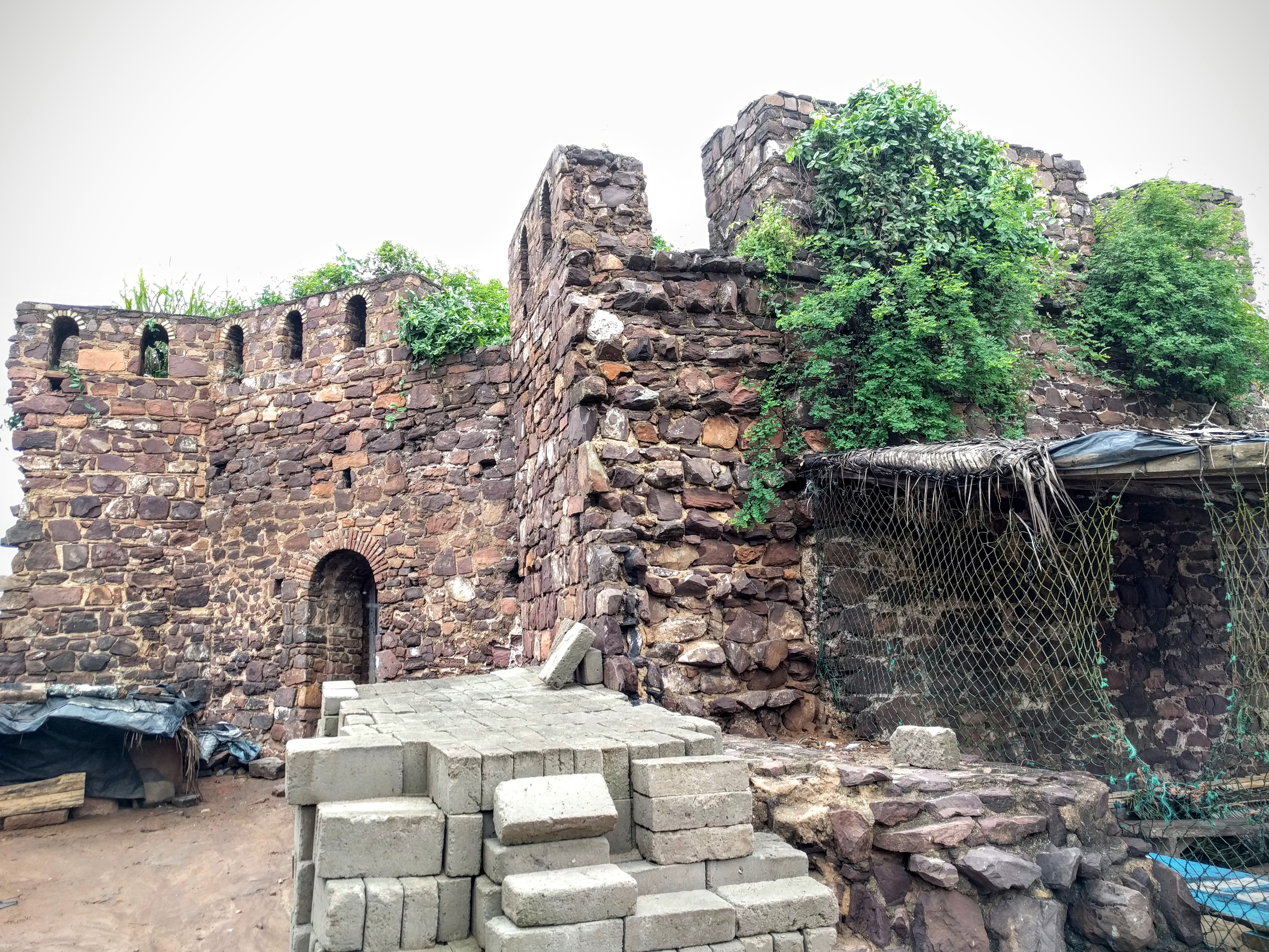 The ruins of Fort Komenda found in British Komenda in the Central Region